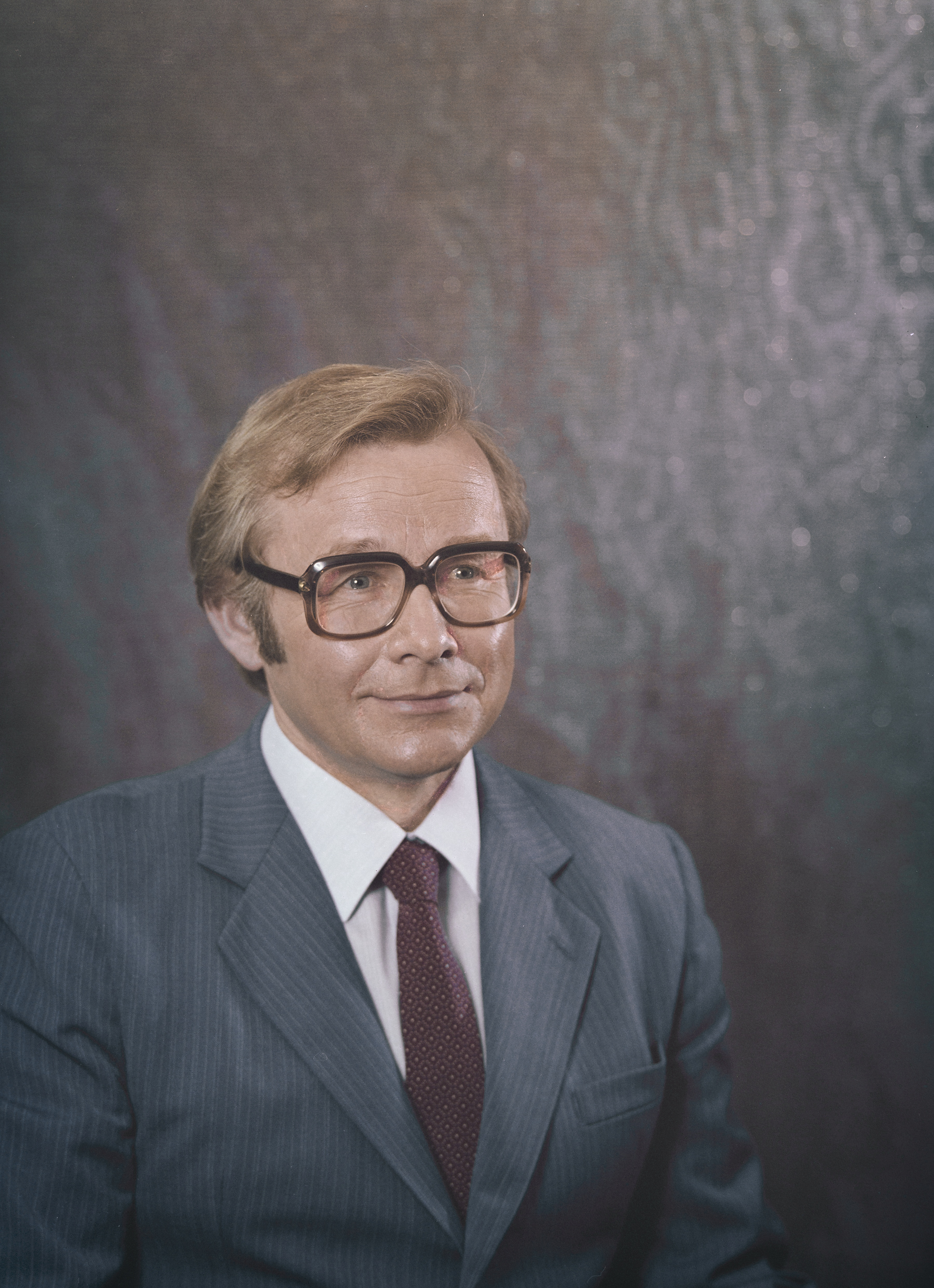 Photograph of the Finnish chemist Pekka Koivistoinen (1932–).